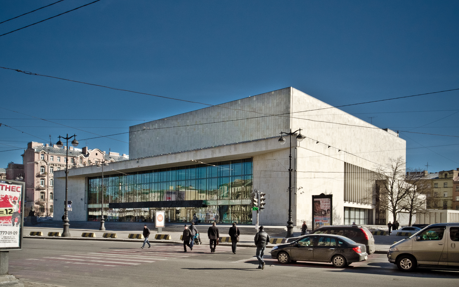 Oktyabrskiy Grand Concert Hall of Saint Petersburg, 2011